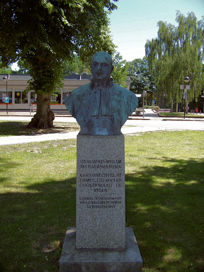 Bust Mr. W.W. van Haersma Buma in Emmen